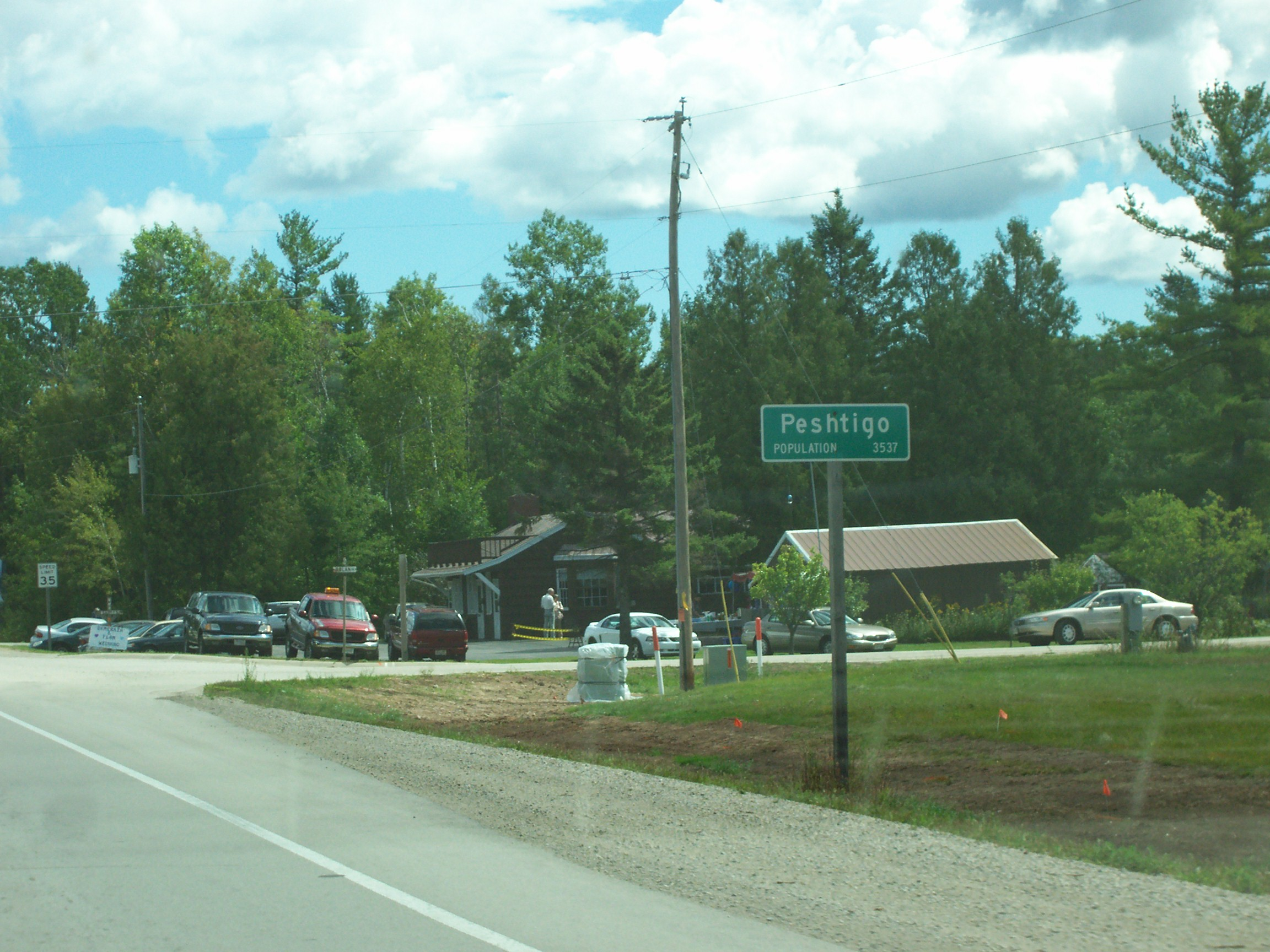 Looking north at the DOT sign for Peshtigo, Wisconsin, USA on U.S. Route 41.